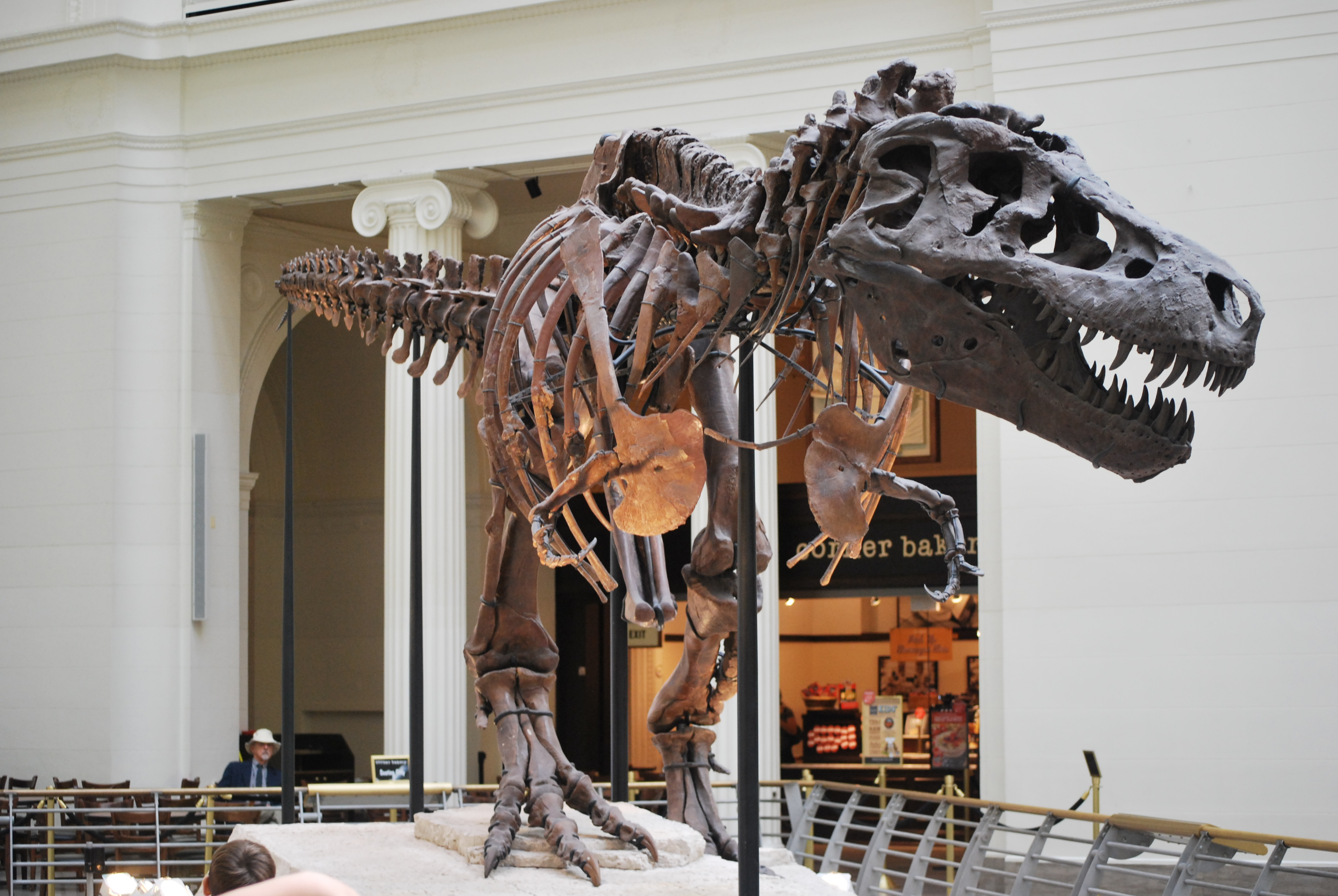 Sue the T-Rex at the Field Museum of Natural History, Chicago, IL